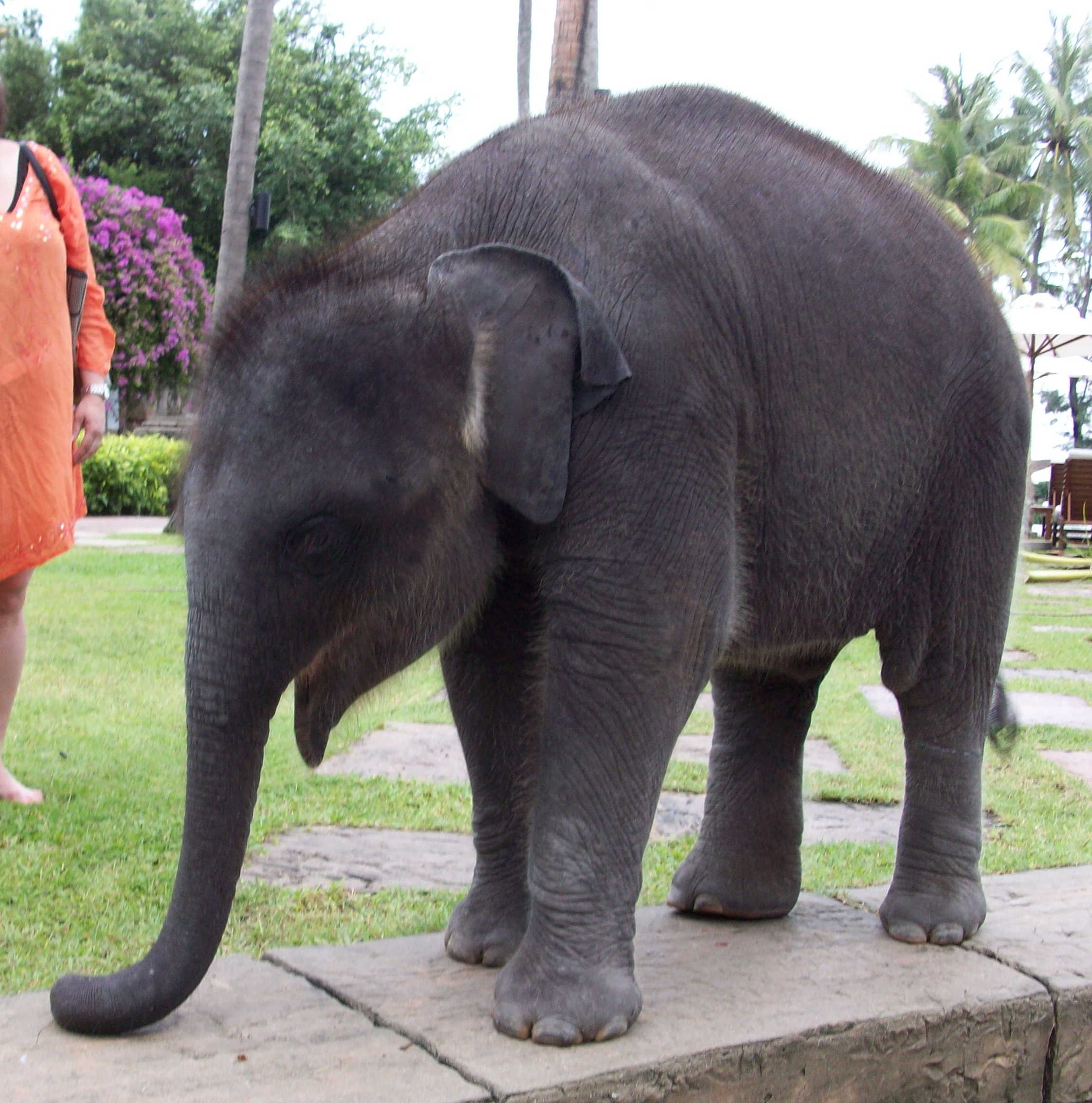 female Asian baby elephant (1 year old), image taken in Phuket, Thailand